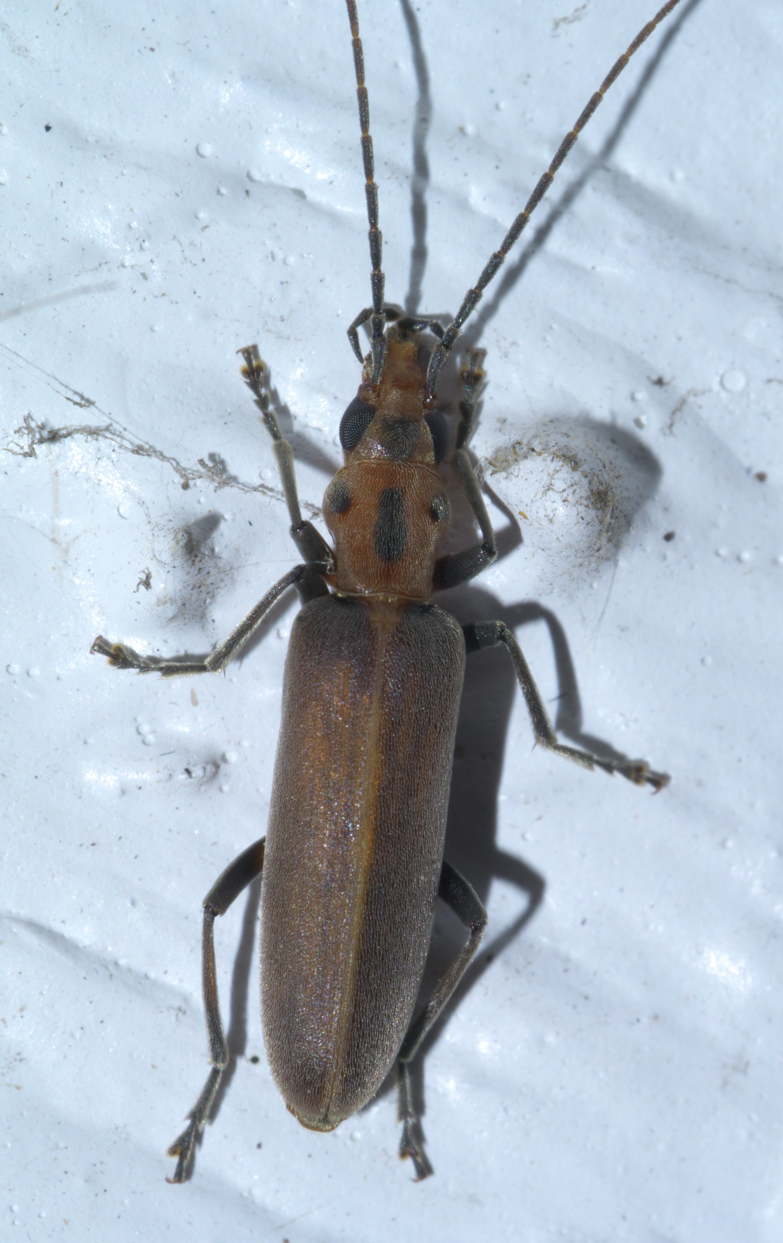 Oxacis trirossi, Family: False Blister Beetles, Size: 9.6 mm, ID Confidence: 98